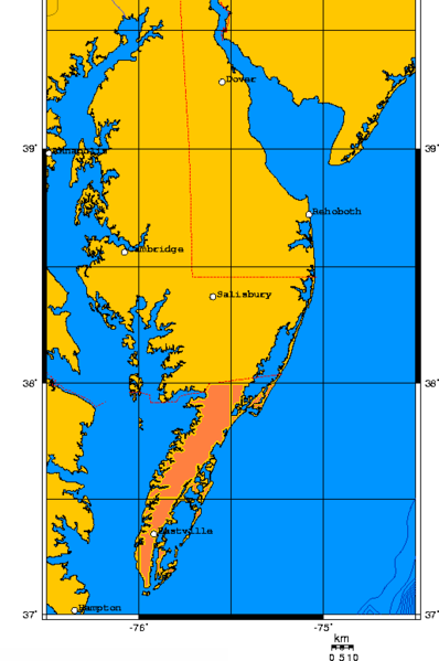 Delmarva Peninsula - East Shore of Virginia highlighted